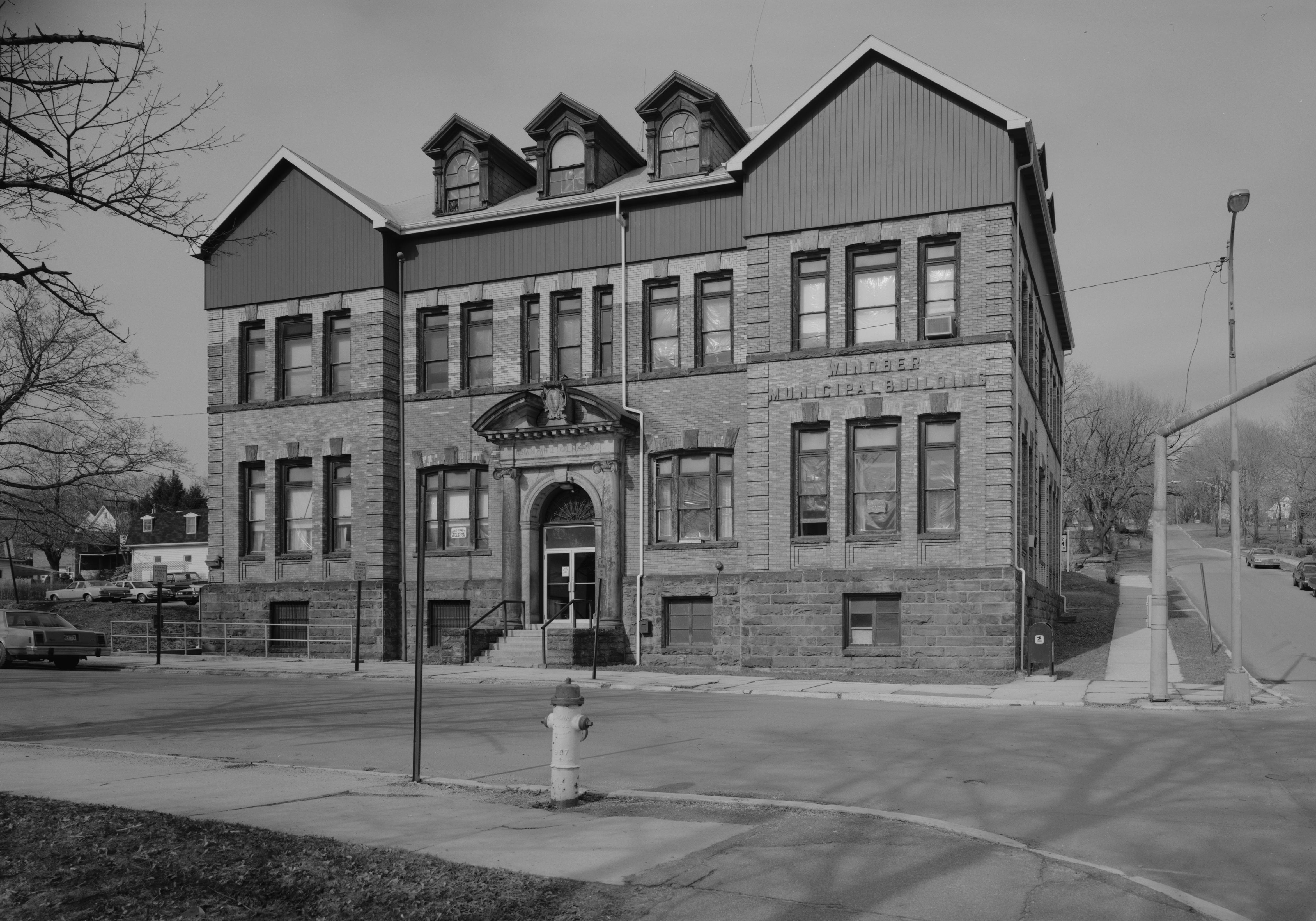 Front of the municipal building in Windber, Somerset County, Pennsylvania, United States. Built in 1902 as the main office building of the Berwind-White Coal Mining Company, it is a part of the Windber Historic District, a historic district that is listed on the National Register of Historic Places.